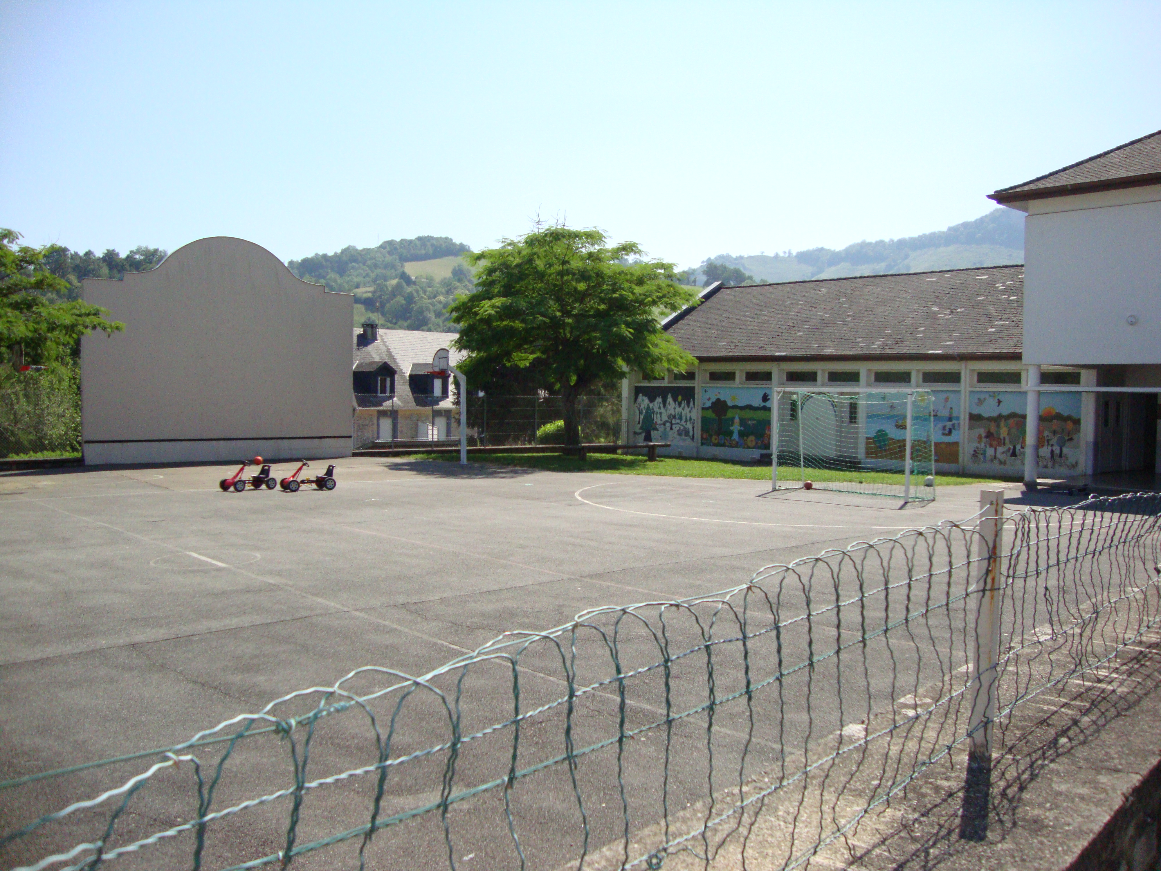 Montory (Pyr-Atl, Fr) pelota court and school